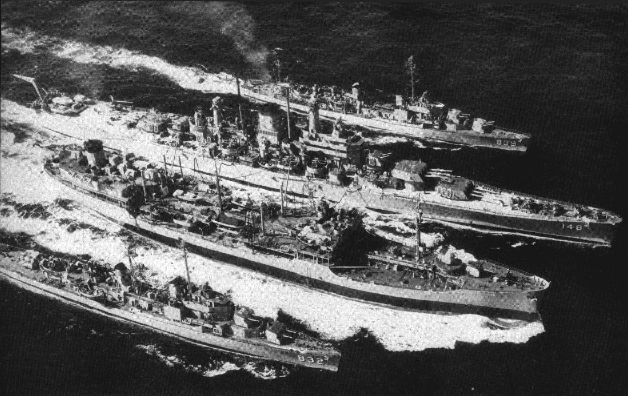 The U.S. Navy fleet oiler USS Salamonie (AO-26) refueling the heavy cruiser USS Newport News (CA-148) and the destroyers USS Hanson (DD-832) and USS Power (DD-839).